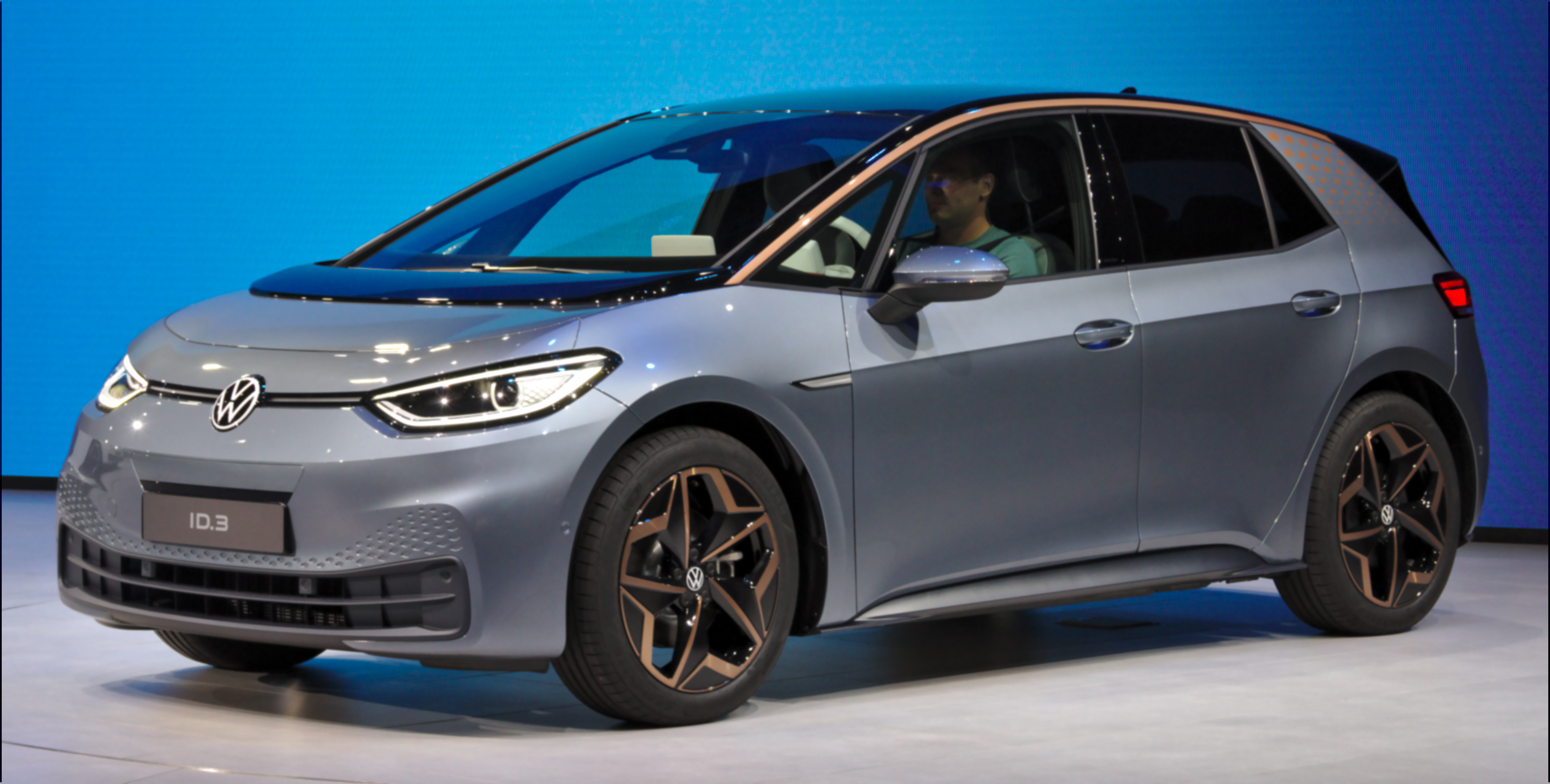 Volkswagen_ID.3 at IAA 2019